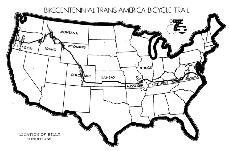 Bikecentennial Trans-America Bicycle Trail, Location of Hilly Conditions; appendix page C-38 (PDF page 139) of "DOT HS-803 206", BICYCLE SAFETY HIGHWAY USERS INFORMATION REPORT; January 1978; BICYCLE SAFETY AND INFORMATION REPORT; Prepared for THE NATIONAL HIGHWAY TRAFFIC SAFETY ADMINISTRATION By BIKECENTENNIAL; Authors: Bruce Burgess, Dan Burden; Date: July, 1977.